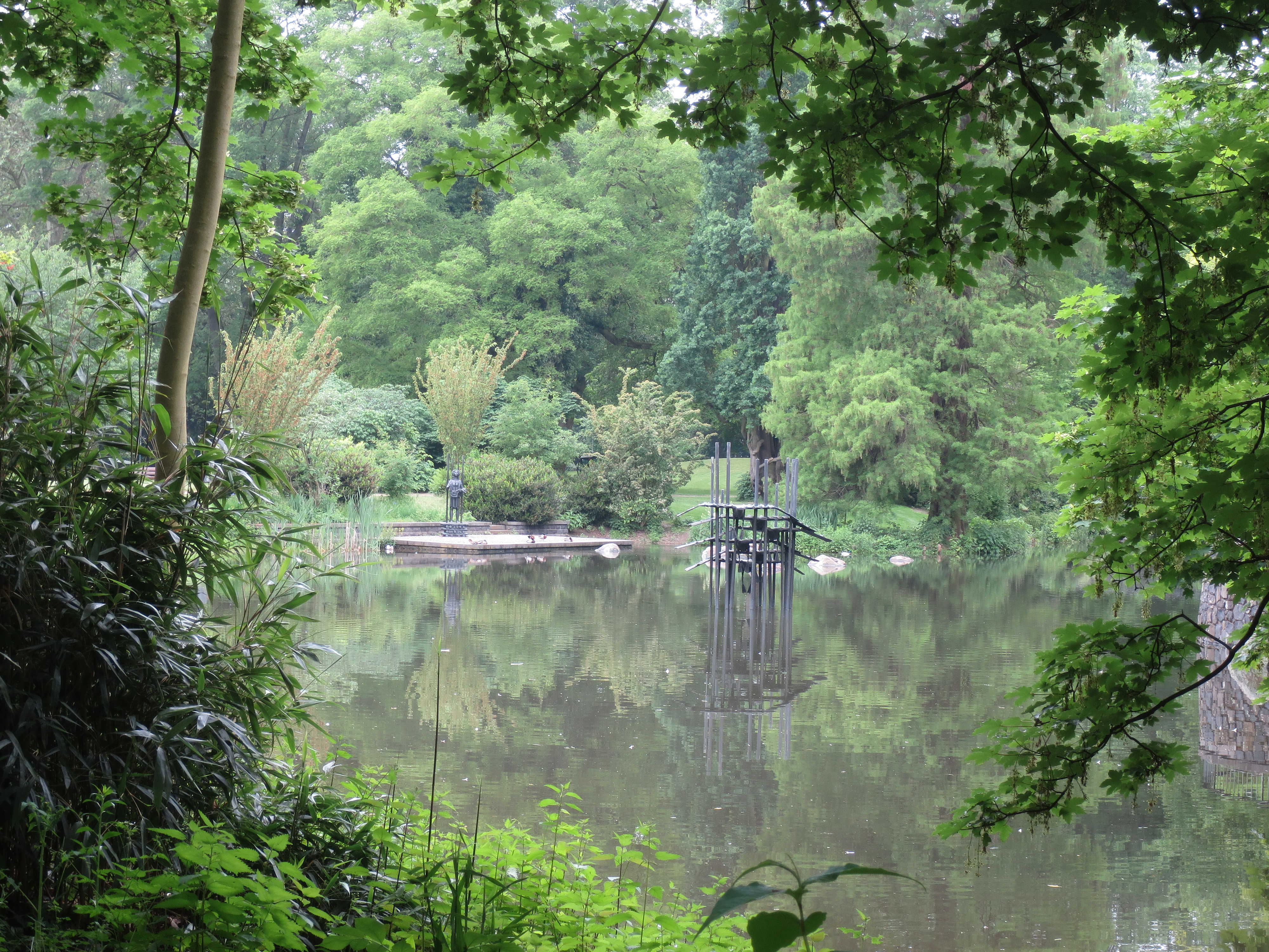 Die sechs Schwäne und ihre Schwester by Albrecht Glenz, Hanau, Germany